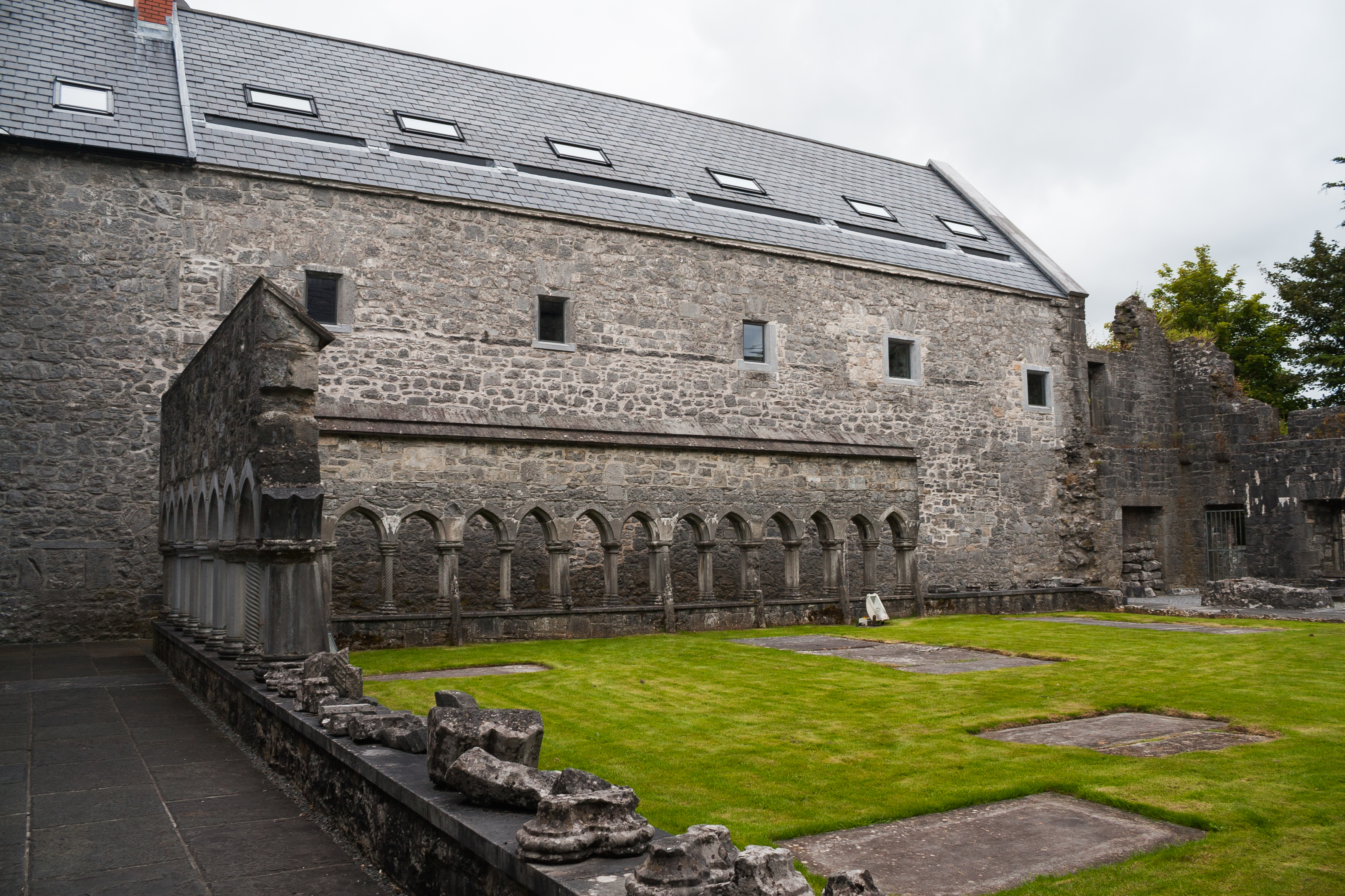 North-west corner of the cloister.